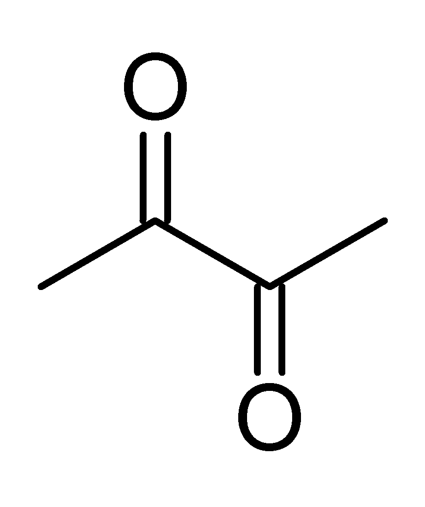 structural drawing of diacetyl - uploaded by image creator Catbar 23:33, 28 June 2004 Catbar 146x156 (812 bytes) (structural drawing of diacetyl - uploaded by image creator Catbar PD )